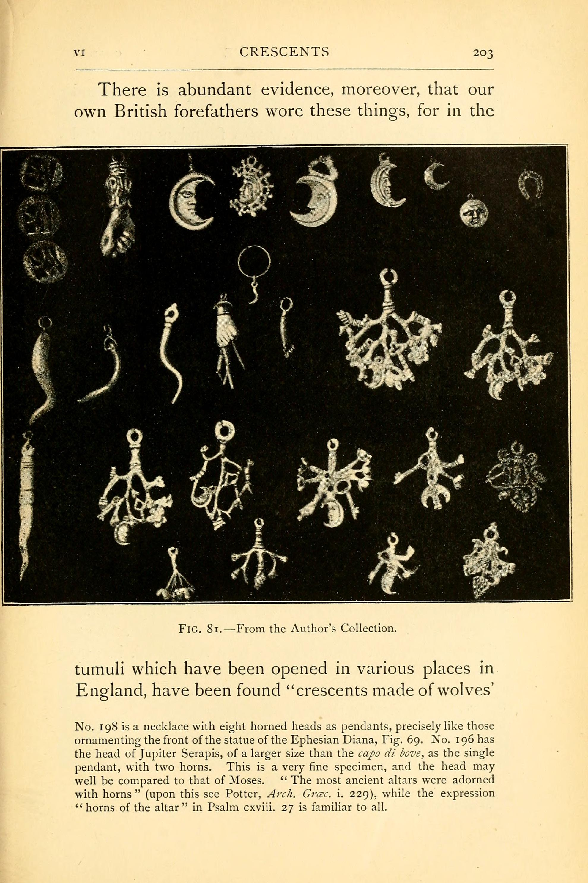 Fig. 81 - From the Author's Collection